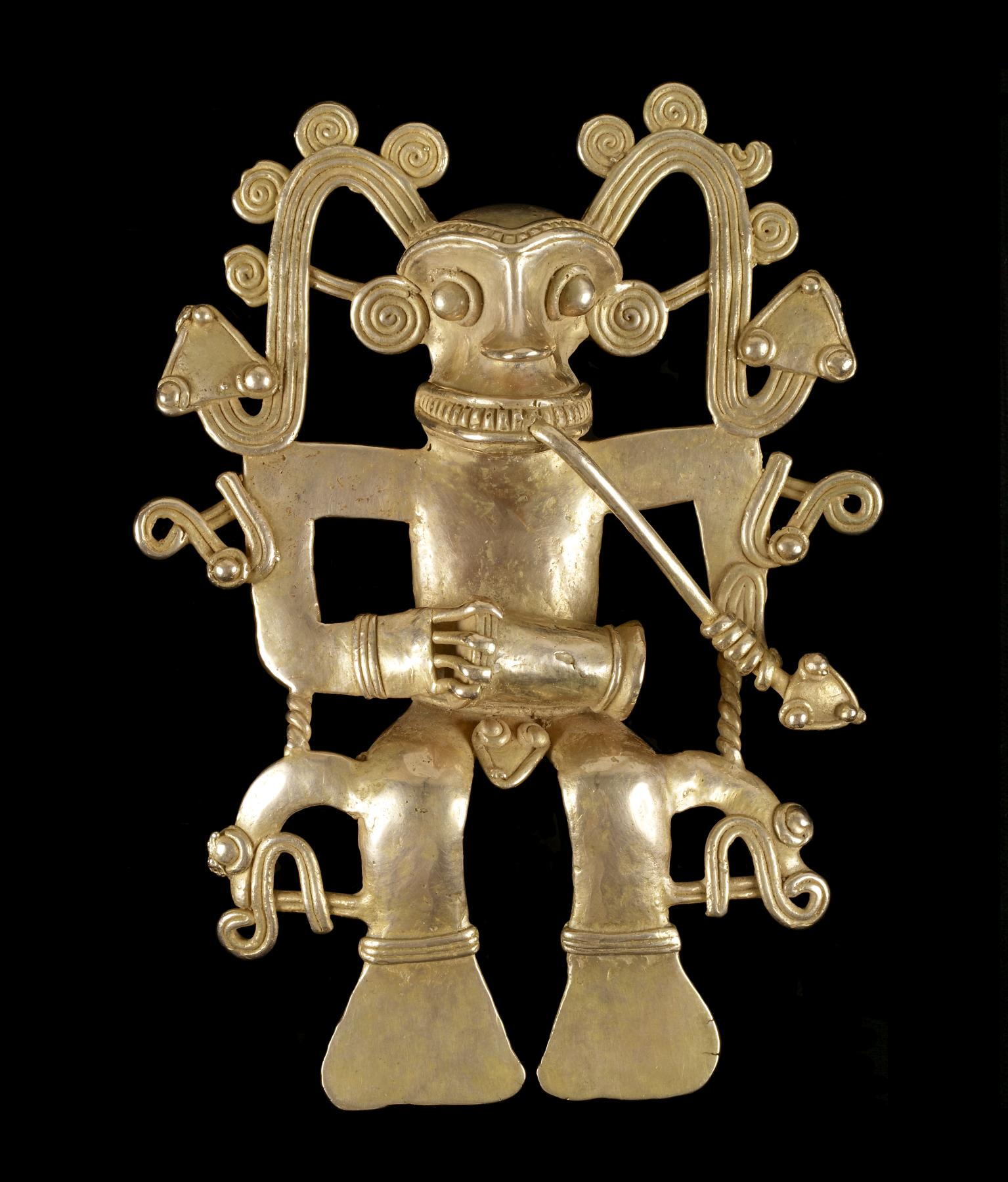 A gold pendant featuring a performer playing a drum and flute, created by a Diquis artist from Central America